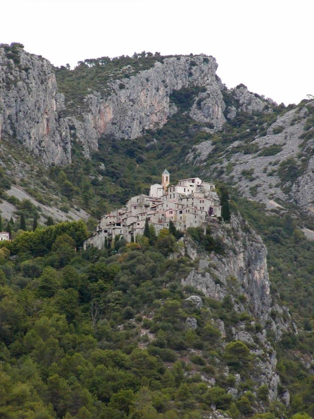 Peillon is a perched village (village perché in french) on a mountain in Alpes-Maritimes department , in South-East of France